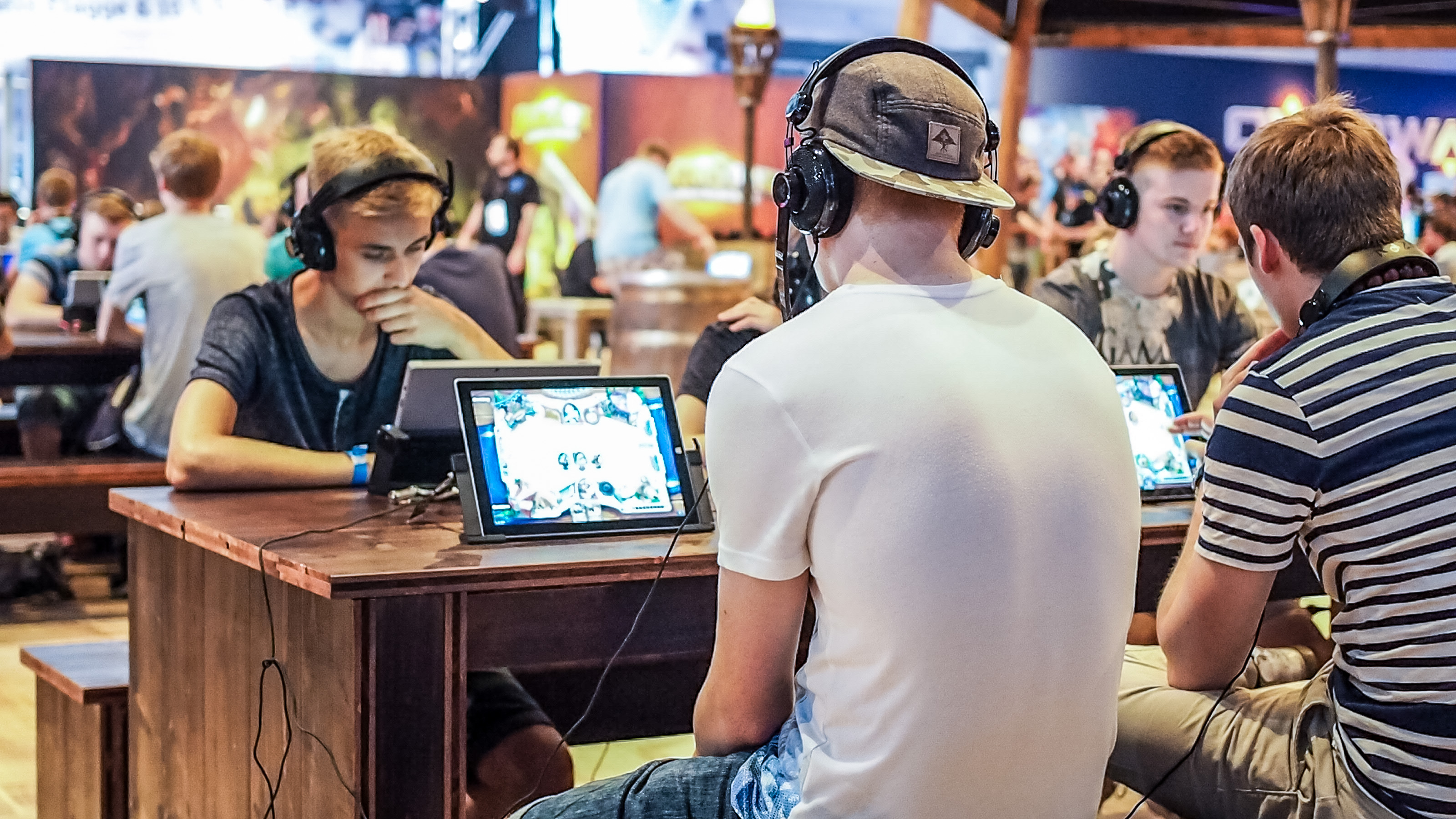 Hearthstone tournament on Gamescom 2015 (Cologne).